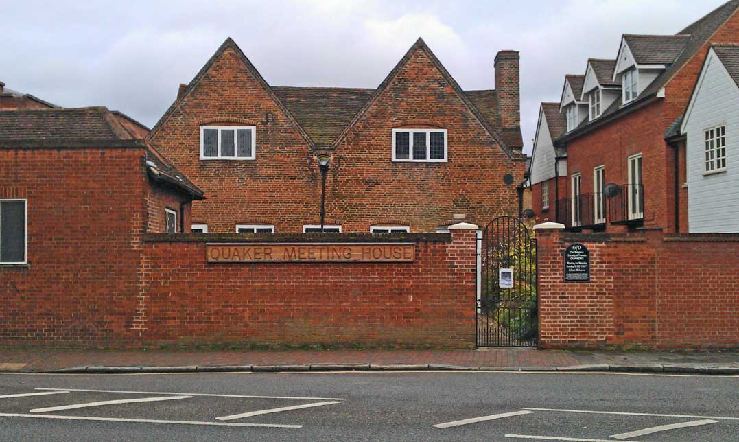 Located in Railway Street, Hertford, England is the oldest purpose-built Quaker Meeting House in the world, having been in use since 1670.